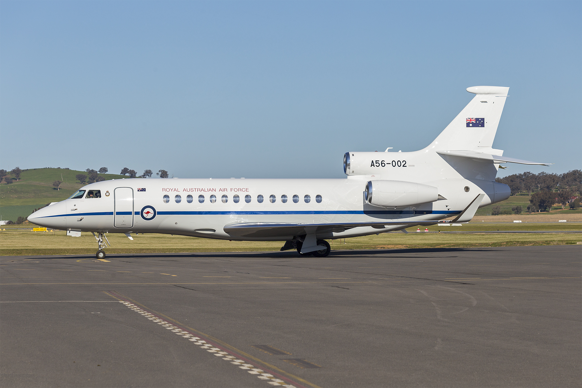 Royal Australian Air Force (A56-002) Dassault Falcon 7X at Wagga Wagga Airport